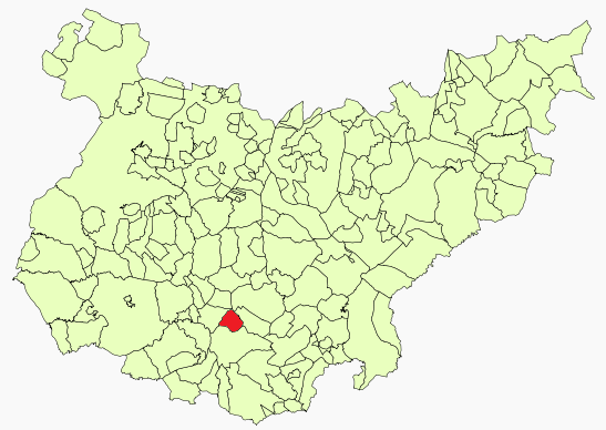 Calzadilla de los Barros